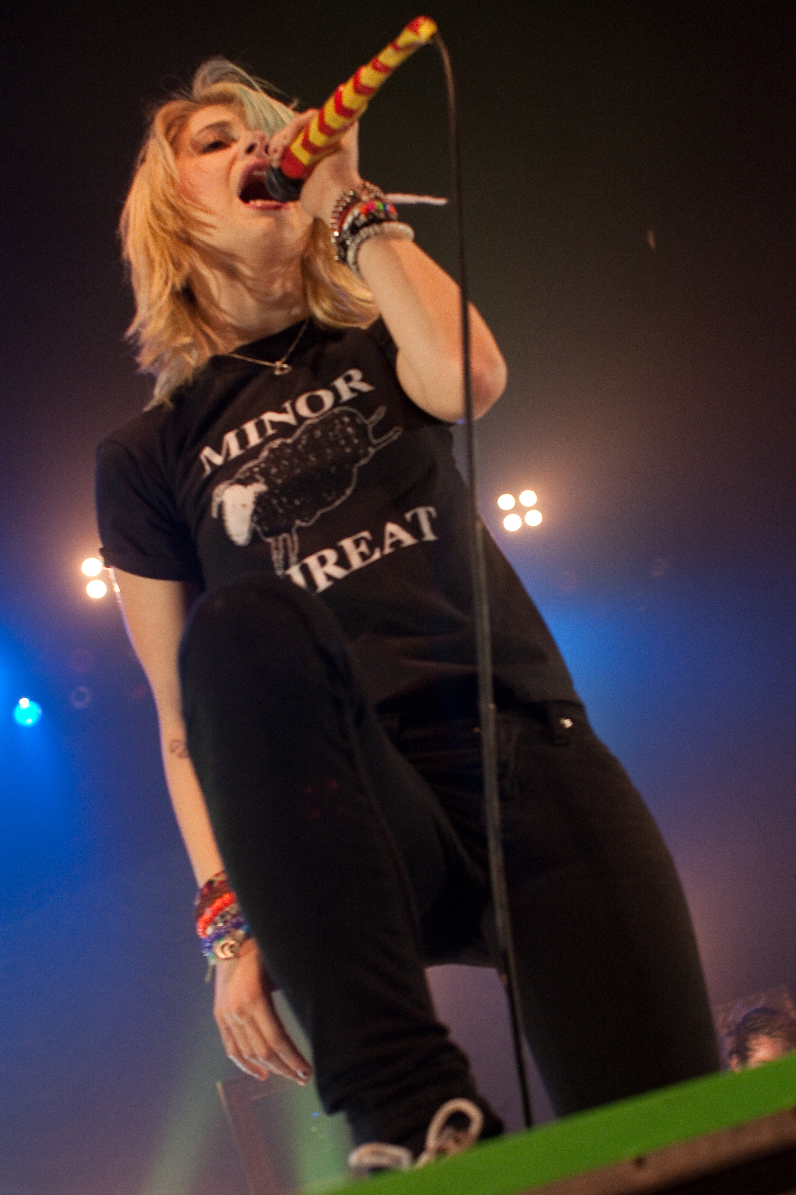 Hayley Williams performing with Paramore at the Warfield